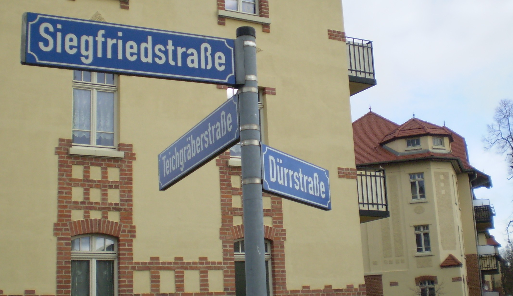 Street signs in Leipzig, Saxony, Germany